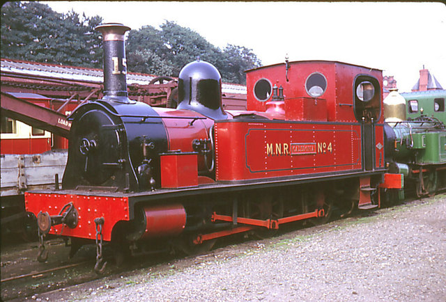 Manx Northern Railway locomotive no. 4 Caledonia at Douglas in . Since 1905, its Isle of Man Railway number has been 15 (see chimney) but was repainted in its historic livery during the lease of the railway system by the Marquess of Ailsa.